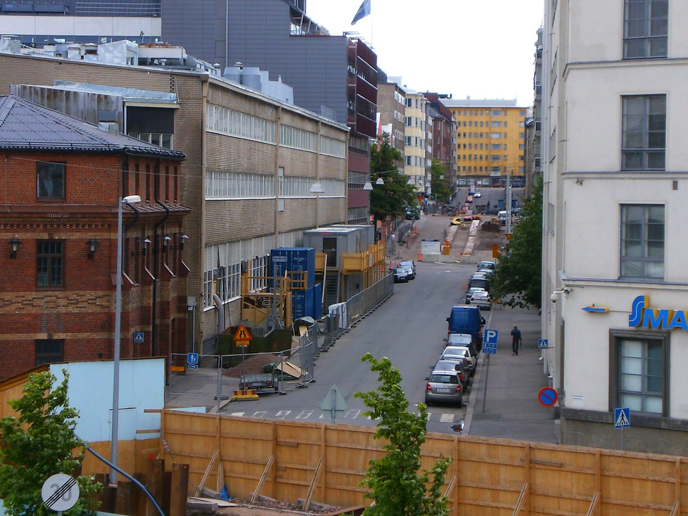 Fleminginkatu, Helsinki, Finland, seen from the north